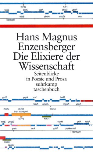 Book cover of Hans Magnus Enzensberger "Die Elixiere der Wissenschaft" 2002